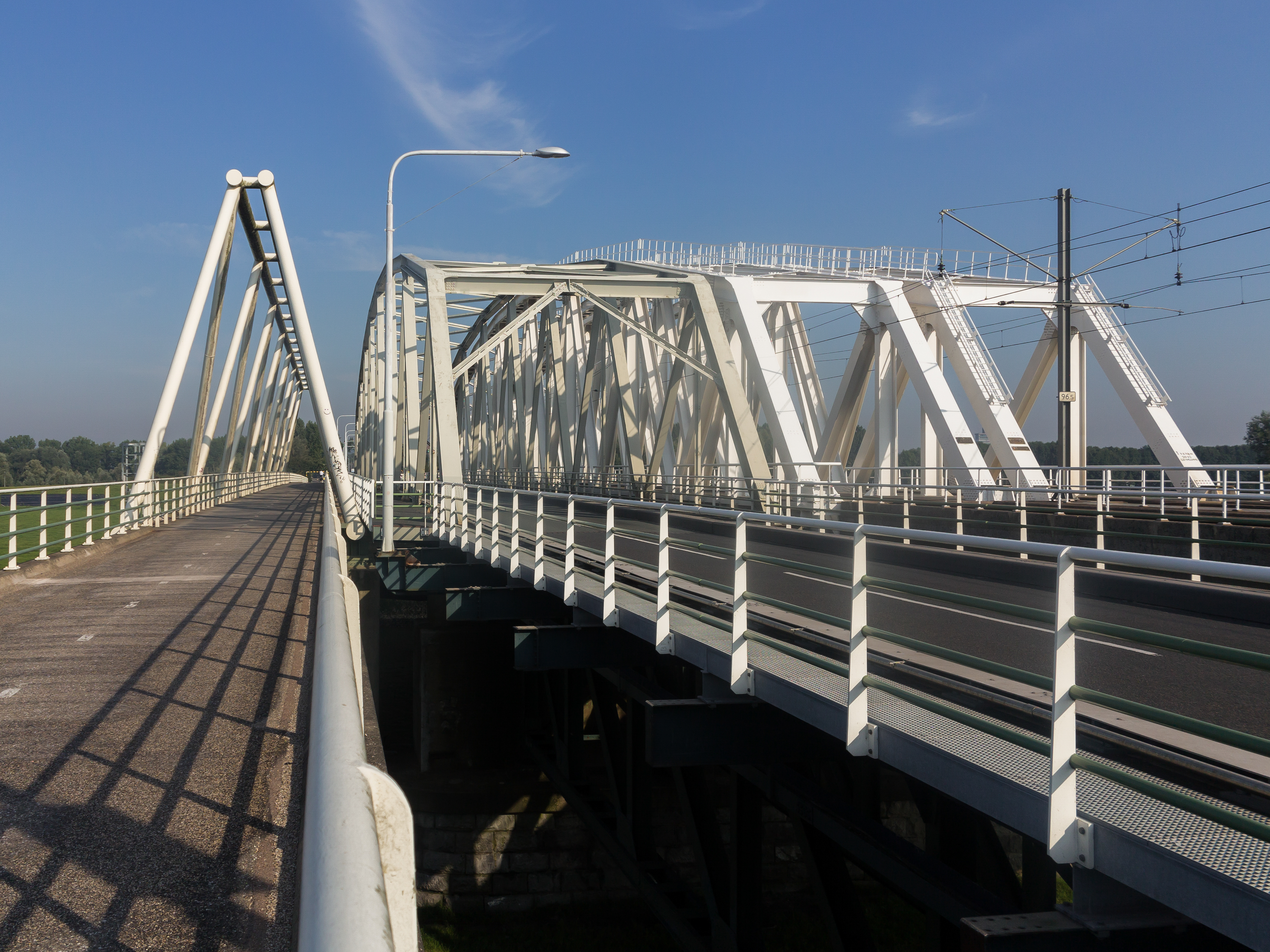 Westervoort, bridge: de Westervoortse Brug